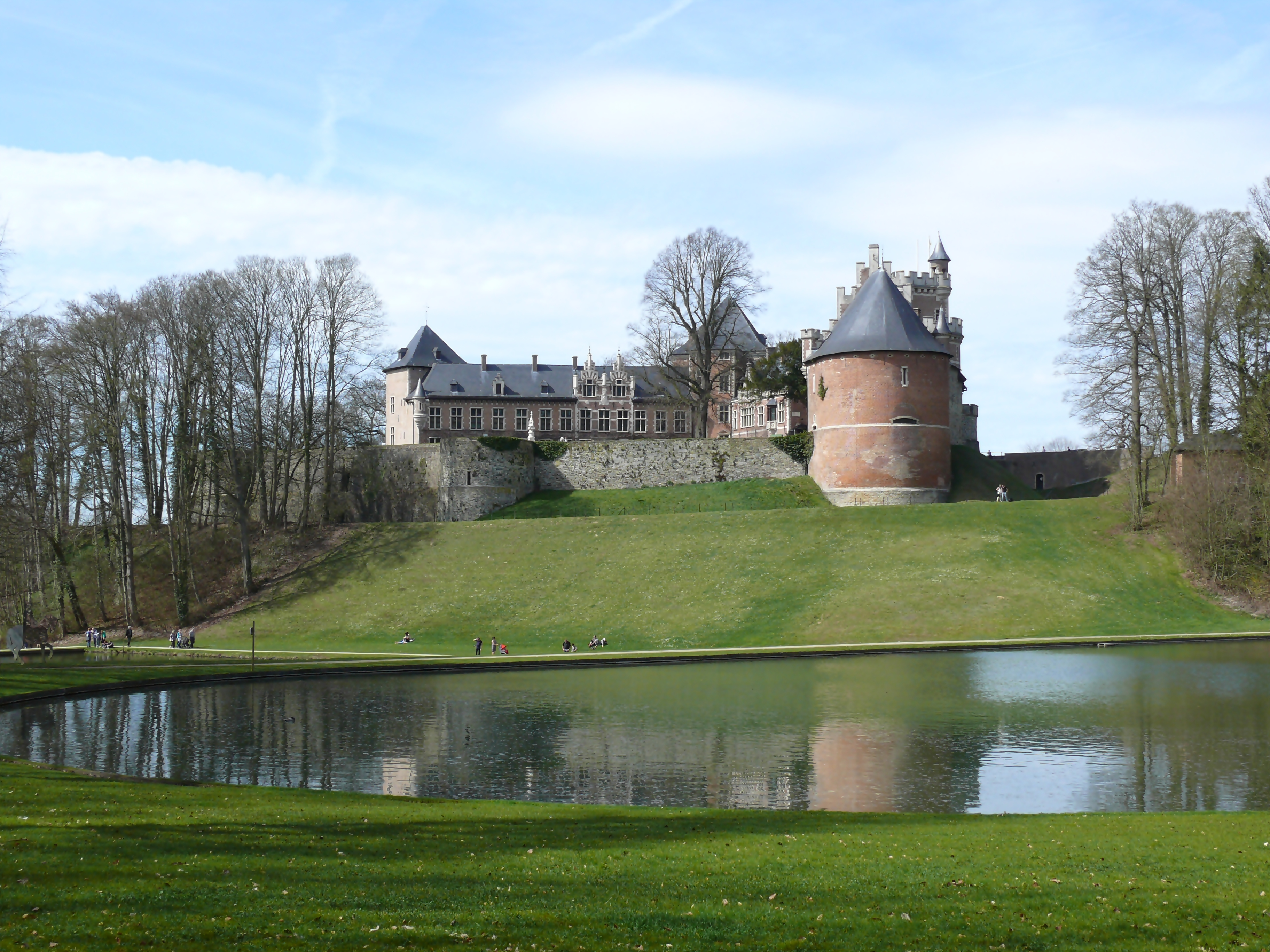 Gaasbeek Castle, Flanders, Belgium.